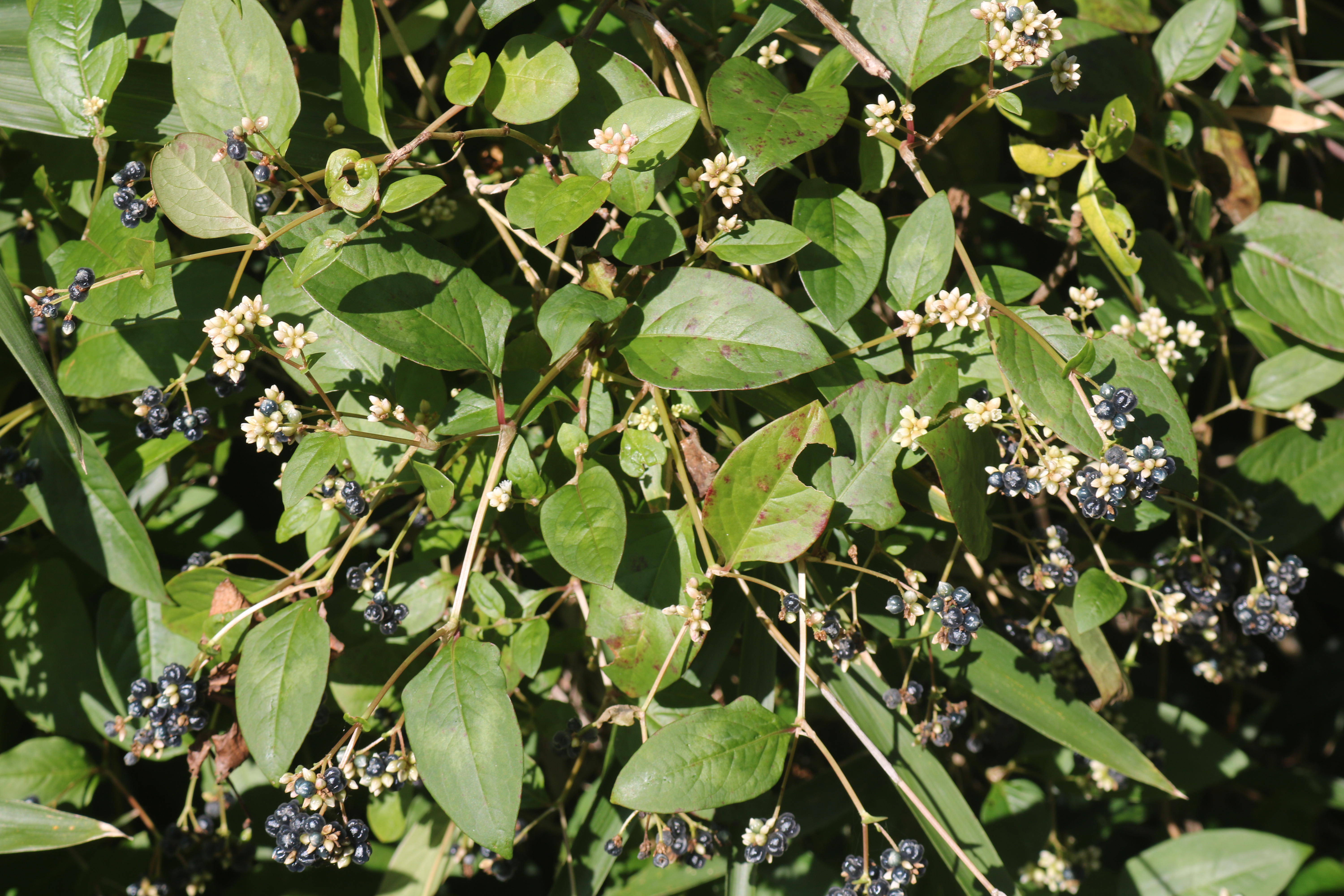 Persicaria chinensis in Saku Island, Nishio, Aichi prefecture, Japan.